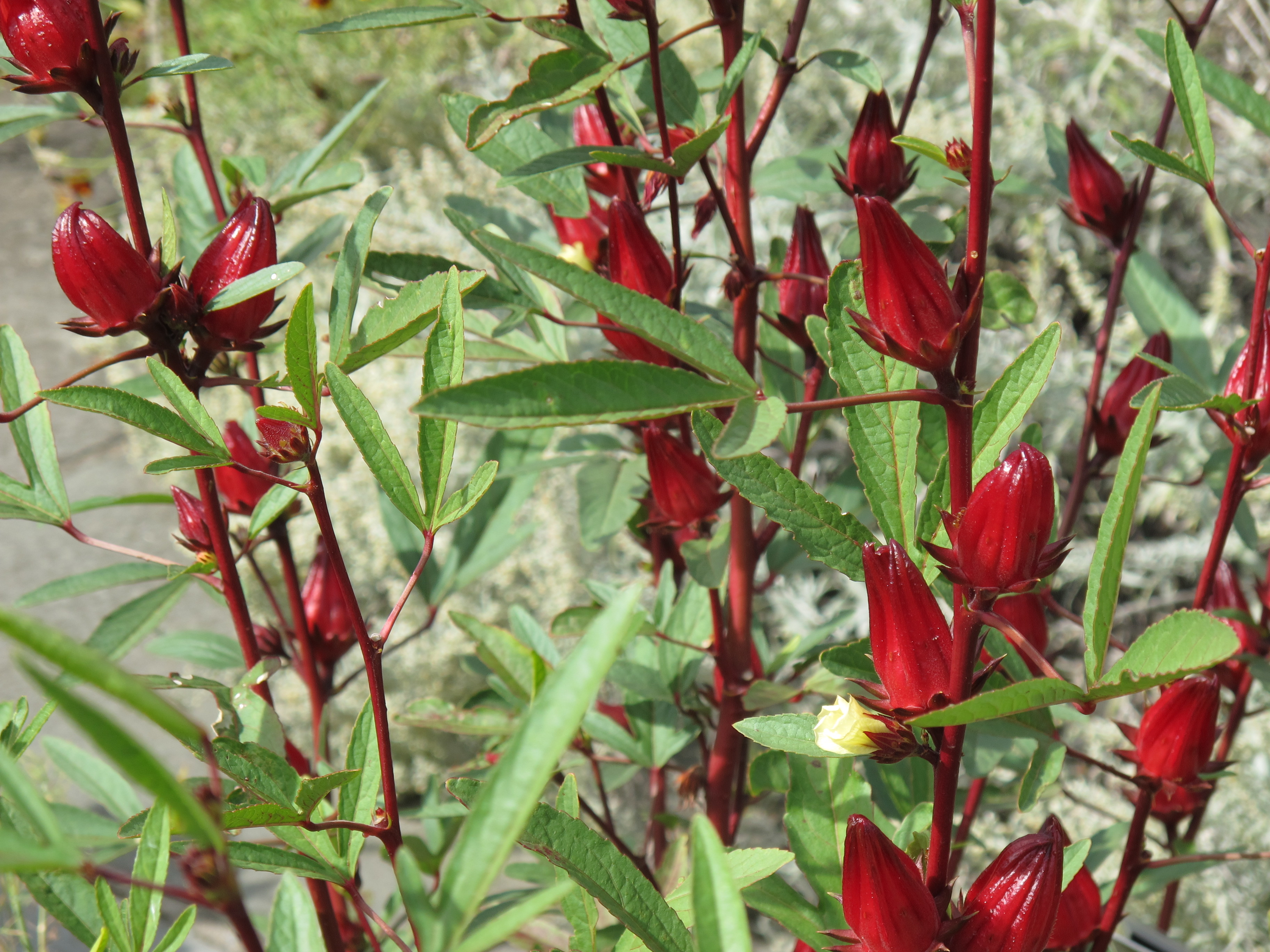 A view of a Hibiscus sabdariffa plant. Wave Hill, the Bronx, New York City, September 2014